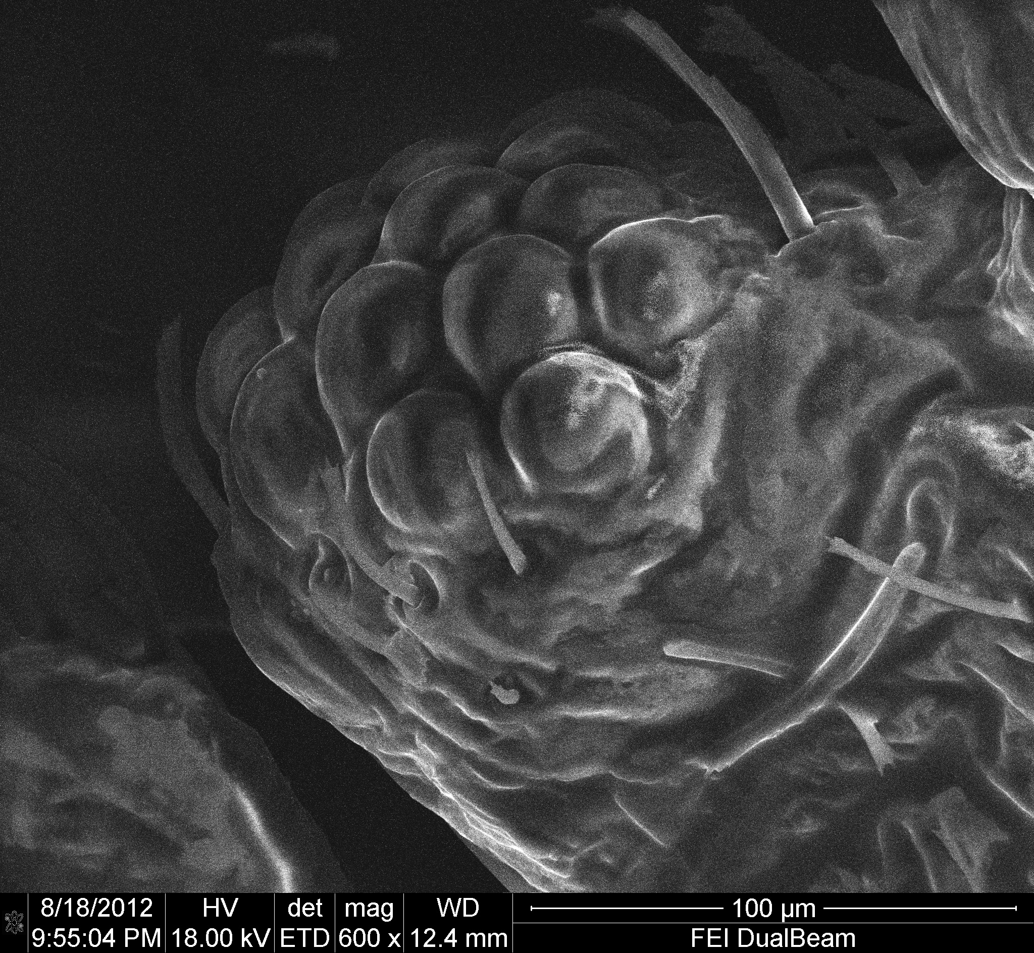 This is an electron micrograph of the compound eye of a bed bug.